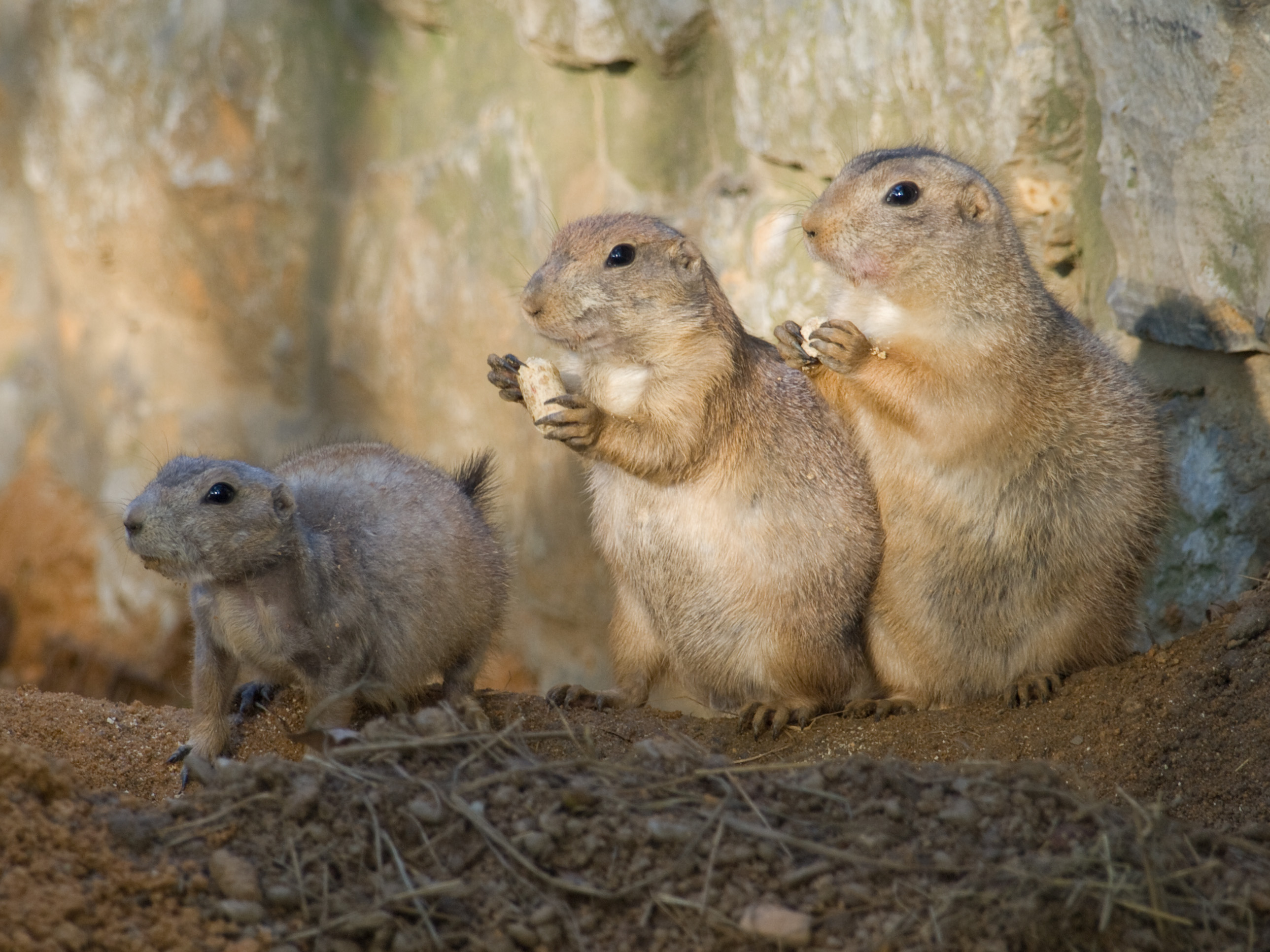 Spermophilus citellus, Prague ZOO, Czech Republic